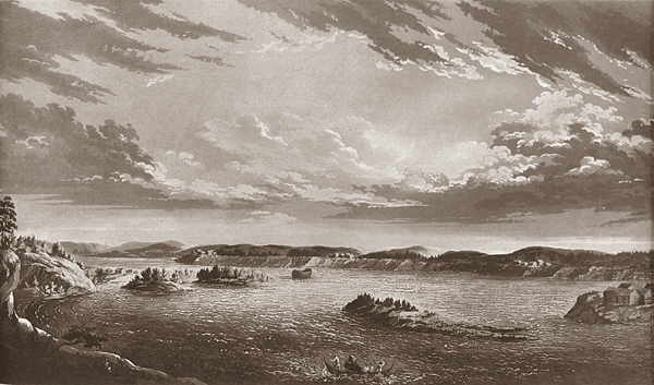 Crossing of the river Kemijoki (12th June 1799)